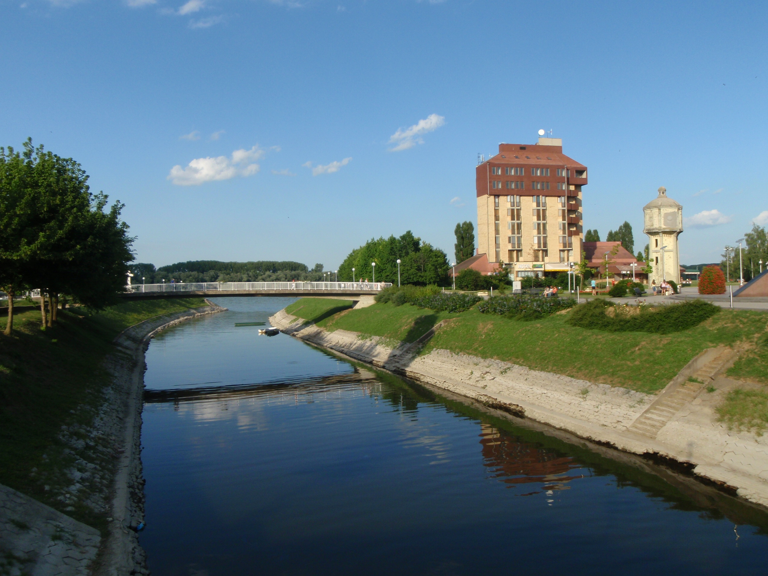 The river Vuko in Vukovar, the hotel and the old water tower at the main square.